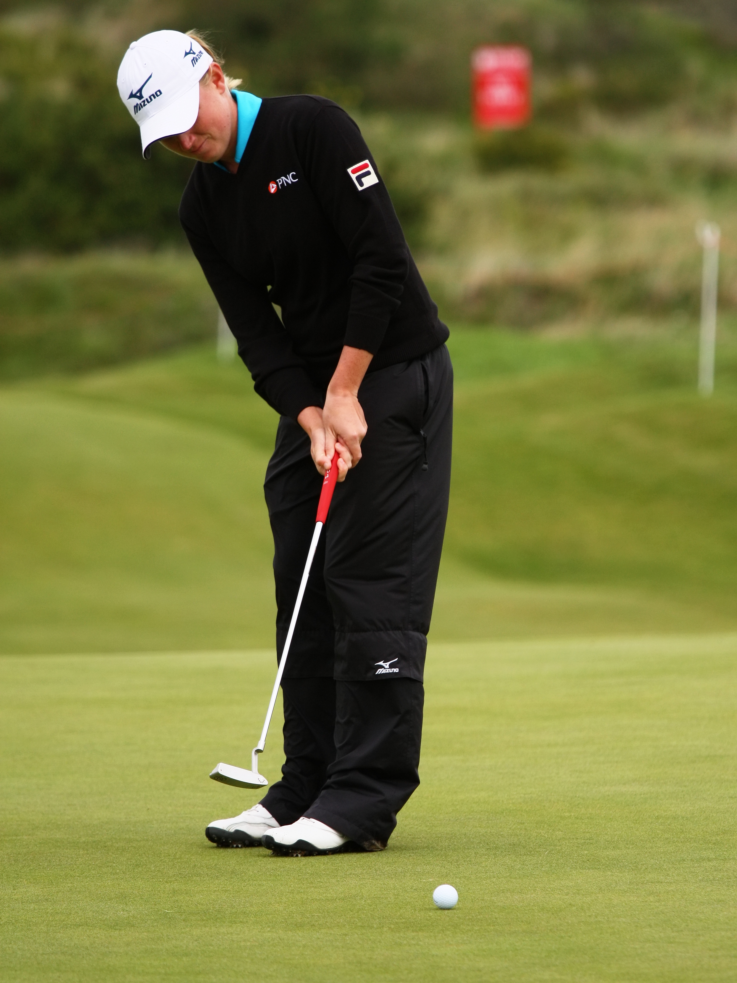 SOUTHPORT, UNITED KINGDOM - JULY 28: Stacy Lewis of USA putts on the 9th green during third practice round before 2010 Ricoh Women's British Open held at Royal Birkdale on July 28, 2010 in Southport, England. (Photo by Wojciech Migda)